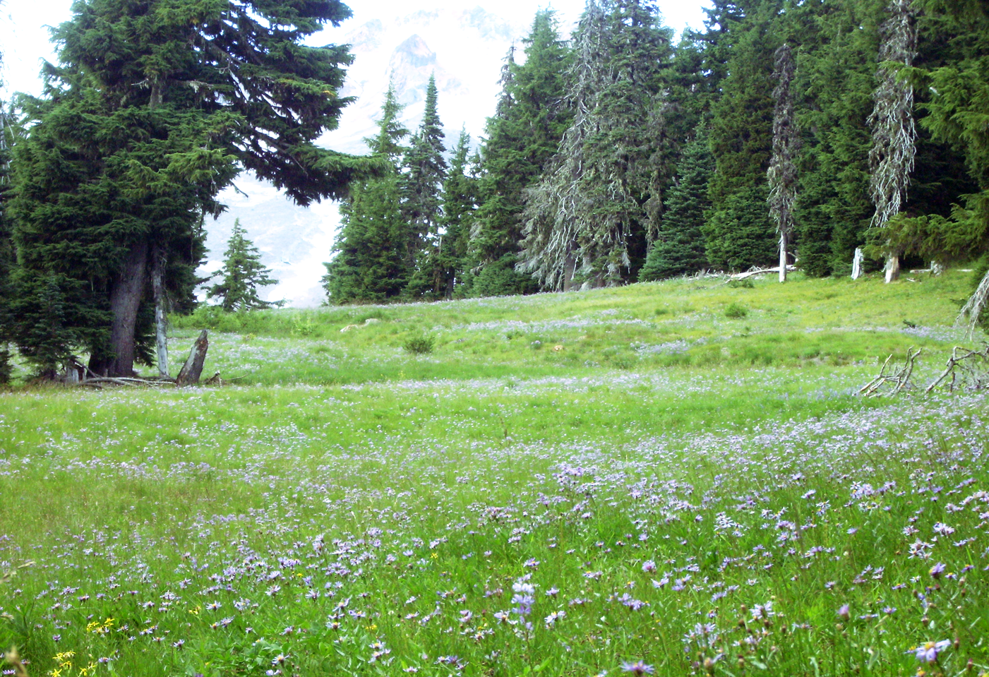 Alpine meadow on Mount Hood near headwaters of West Salmon River in Timberline Lodge ski area.